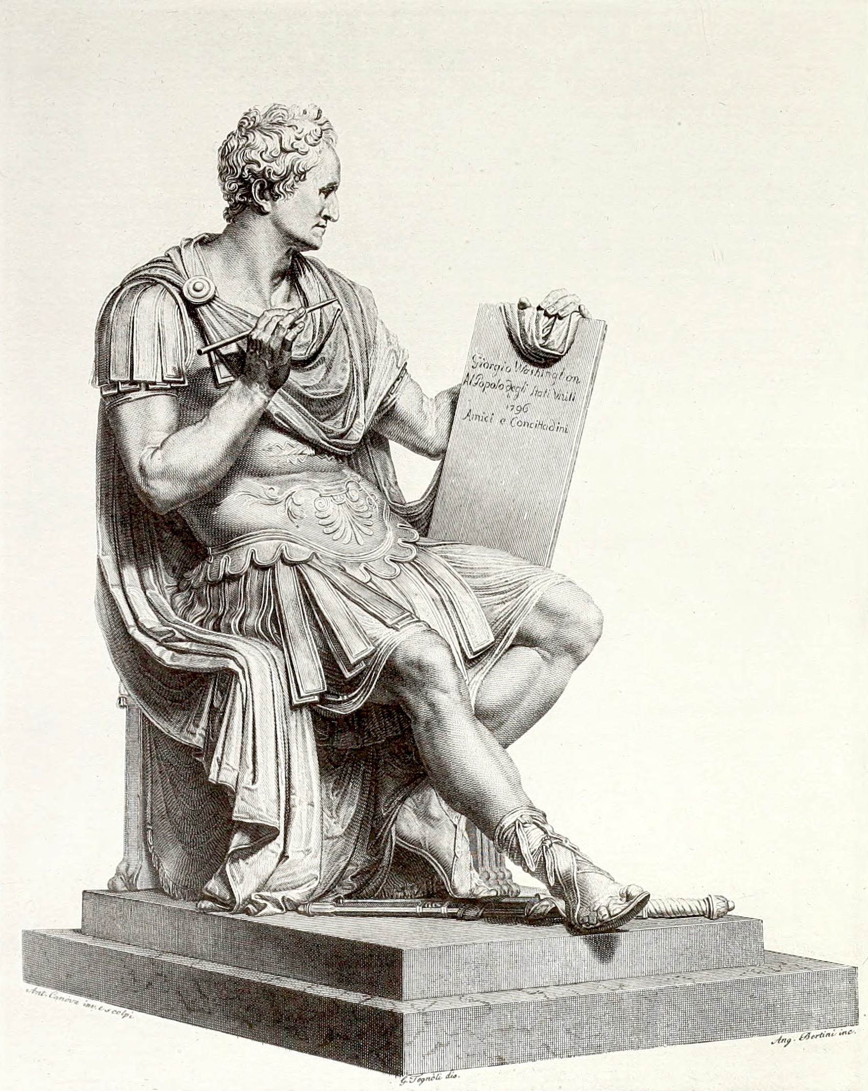 Engraving by Angelo Bertini from a drawing by Giovanni Tognoli after the sculpture of George Washington by Antonio Canova.